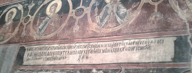 Saint Nicholas of Anthimos Church Fresco